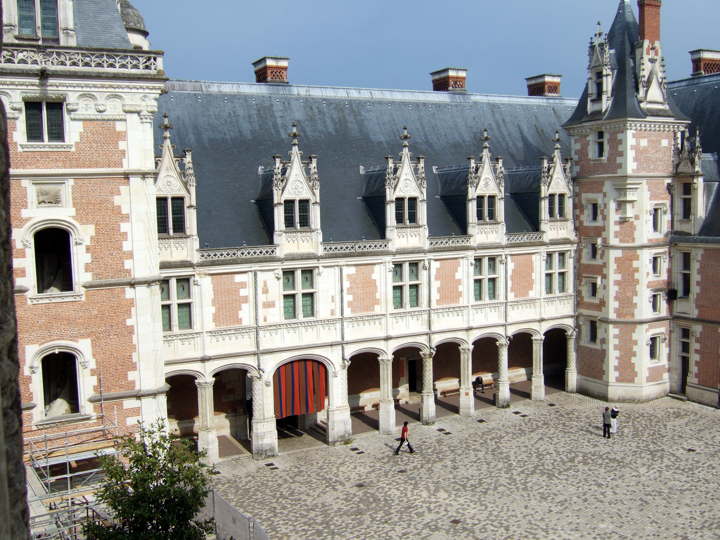 The Louis XII wing of the Château de Blois, from the inside, elevated viewpoint. Taken by me.